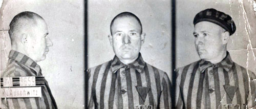 Franciszek Gajowniczek - photos from KL Auschwitz card index (public instrument)